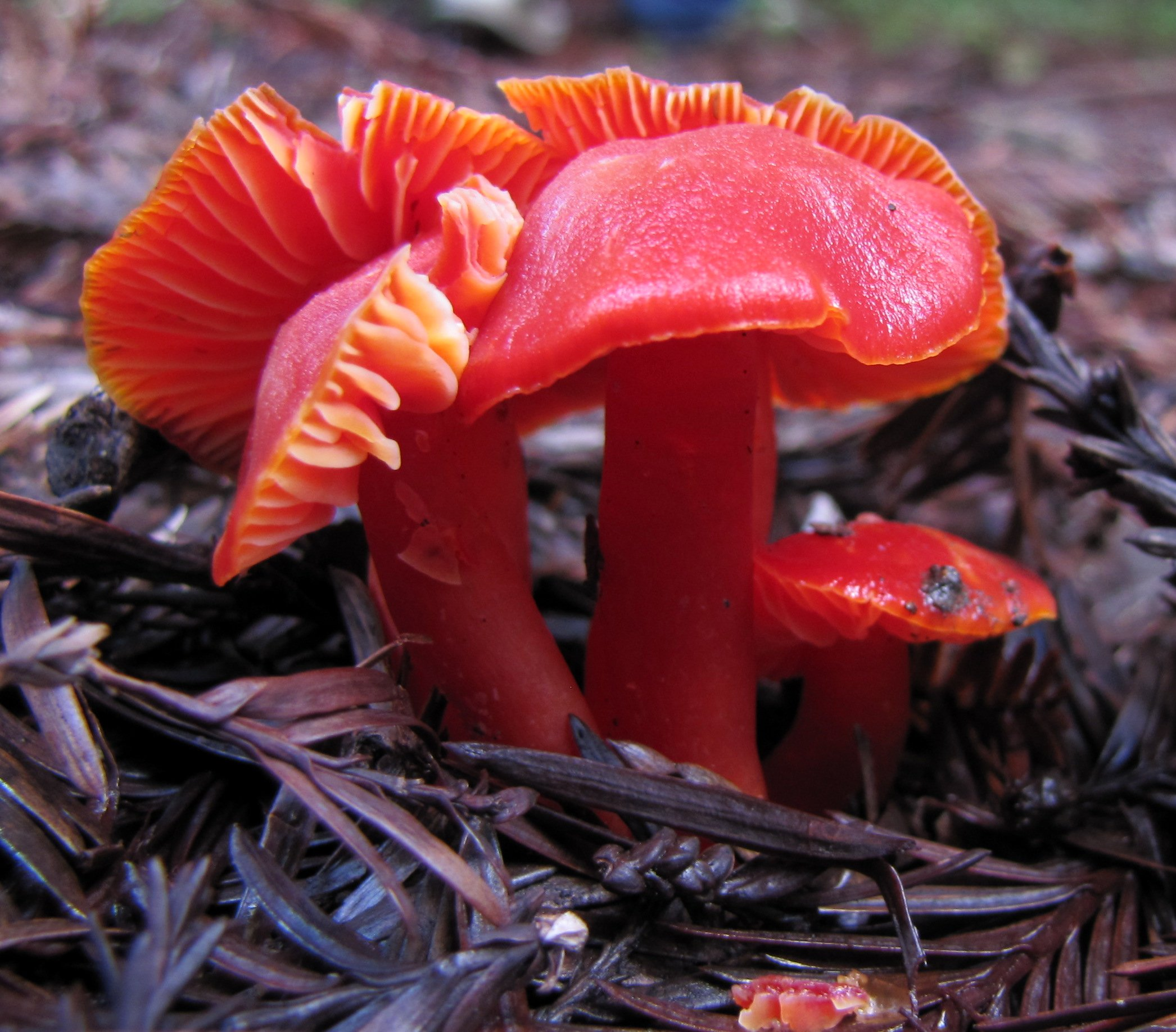 The mushroom Hygrocybe coccinea (Schaeff.) P. Kumm.